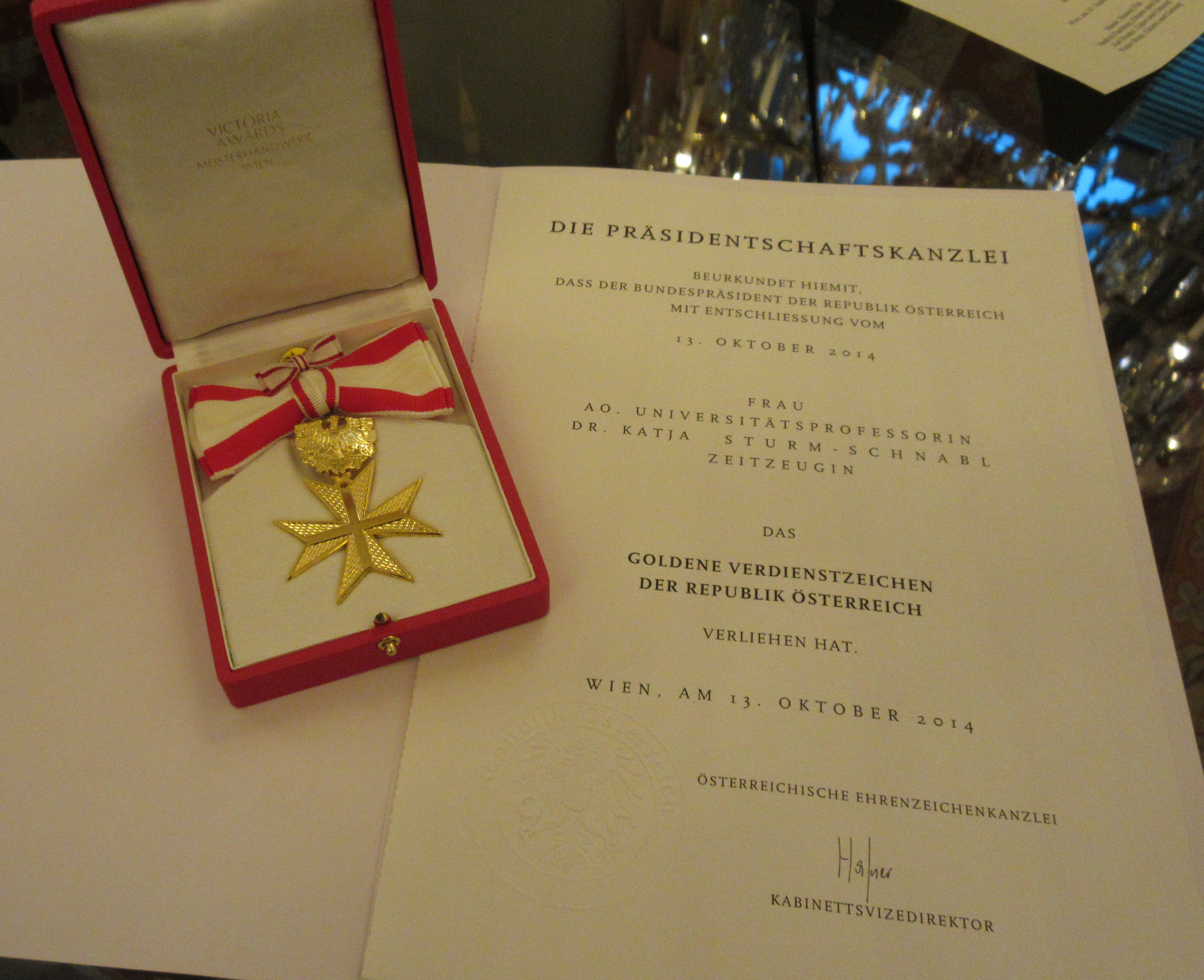 Golden decoration of the Republic of Austria to Katja Sturm-Schnabl